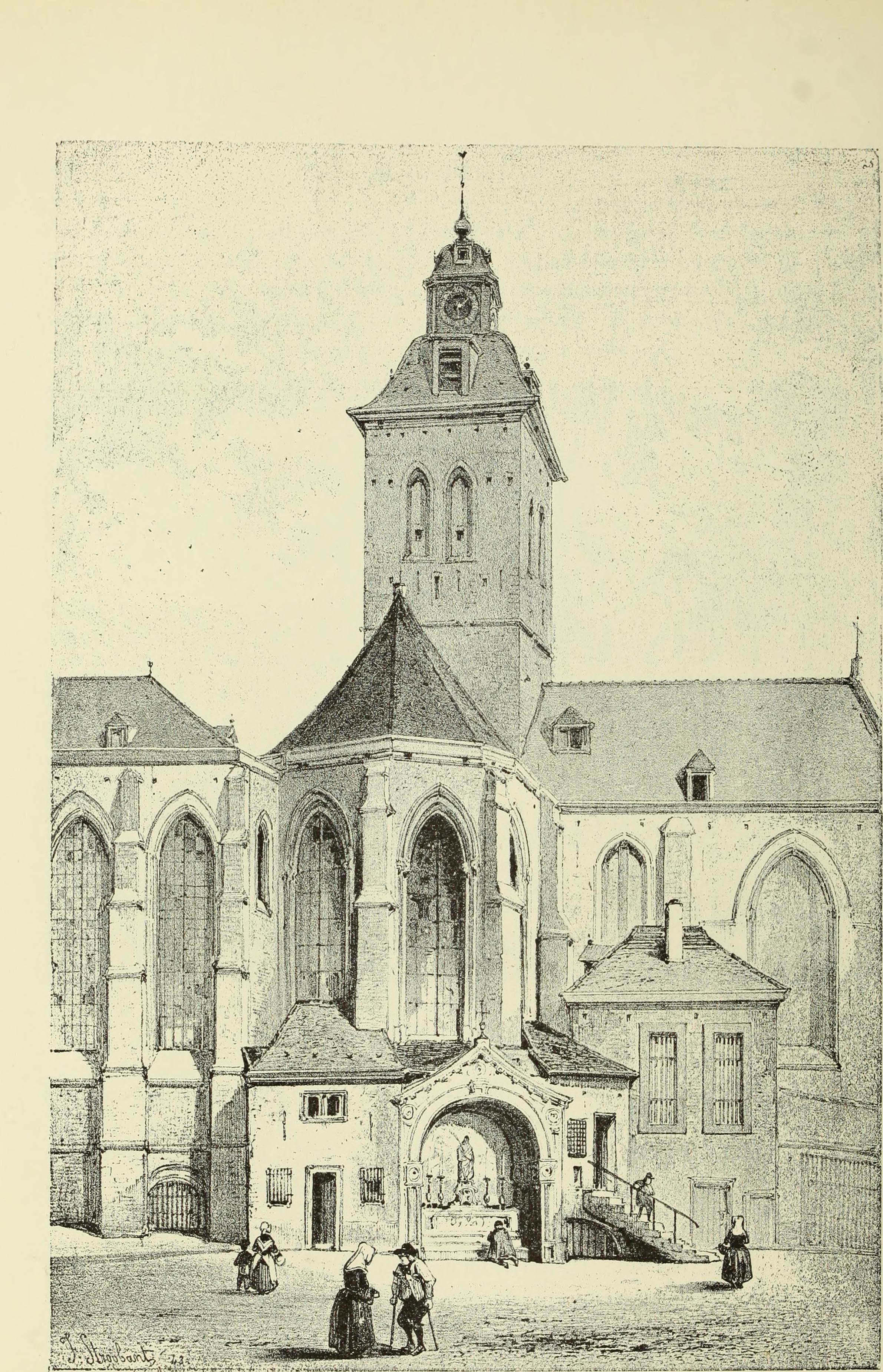 Title: Bruxelles à travers les âges Year: 1884 (1880s) Authors: Hymans, Louis Salomon, 1829-1884 Hymans, Henri, 1836-1912 Hymans, Paul, 1865-1941 Subjects: Publisher: Bruxelles : Bruylant-Christophe Text Appearing Before Image: Vue de la cour de lancien hôpital Saint-Jean.Daprès Lauters. Il y apporta lardeur, les qualités de combativité, la ténacité qui étaient aussi sesmérites dorateur et dhomme politique. Le Jardin Botanique, depuis les difficultés qui le mirent en péril, a pris dadmi-rables développements. Déjà à lépoque où nous nous renfermons pour le moment,il était assidûment fréquenté par les promeneurs bruxellois et par les étrangers.Pendant les belles soirées dété et les dimanches après-midi, la Société philharmo-nique y donnait des concerts. Le jardin avait un concierge chargé de surveiller lesparcs de fleurs et les serres, qui avait ajouté à leurs attractions celles dun commerce (1) Nous avons consulté avec fruit une intéressante note sur le Jardin Botanique que M. Albert Du Bois a eu lamabilitéde nous communiquer. Text Appearing After Image: Lancienne église Saint-Jean au Marais, vue prise de lintérieur de lhôpital.Fac-similé dun dessin de Stroobant fait daprès nature en 1843.